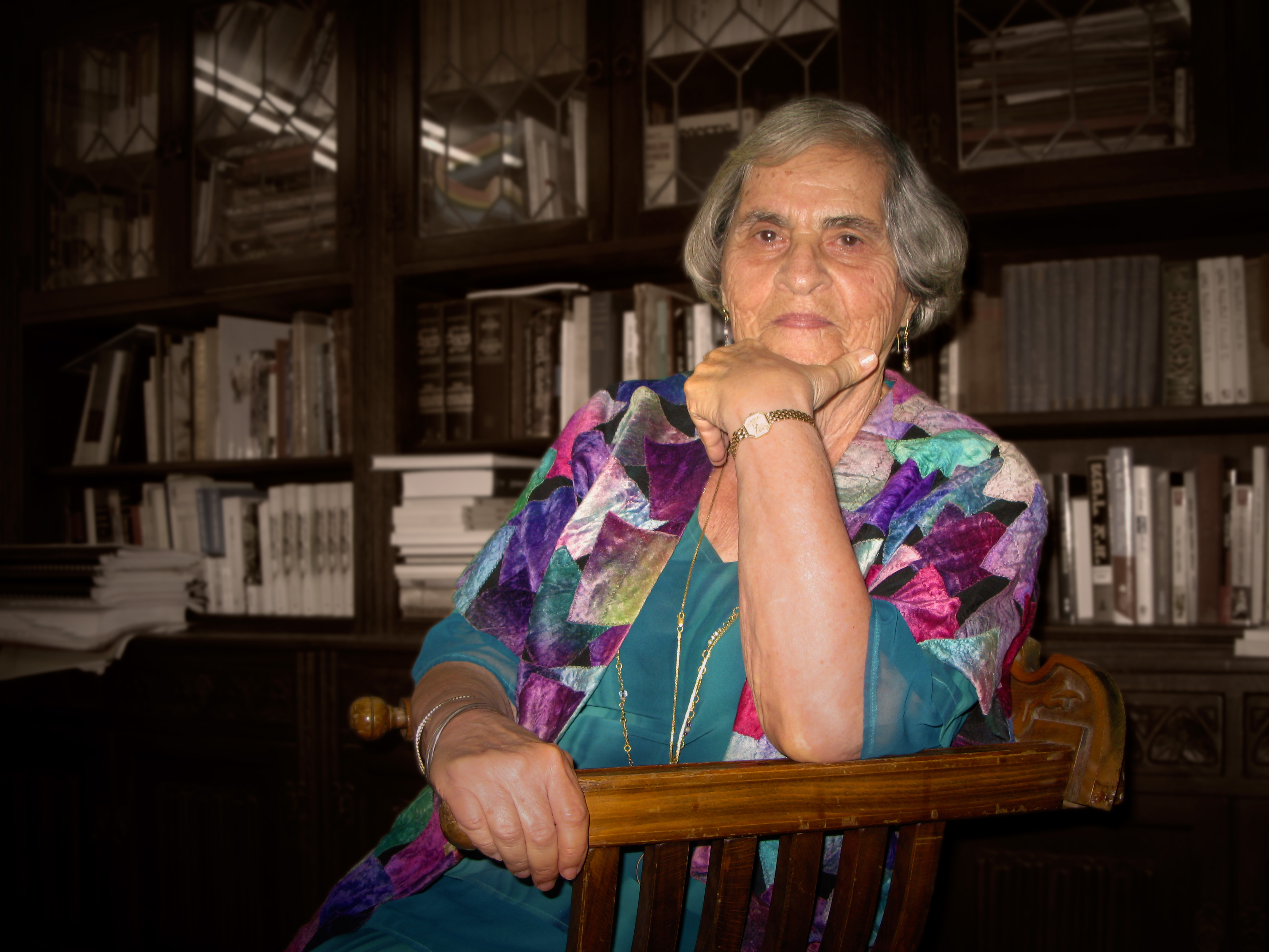 prof Ruth Ben-Israel